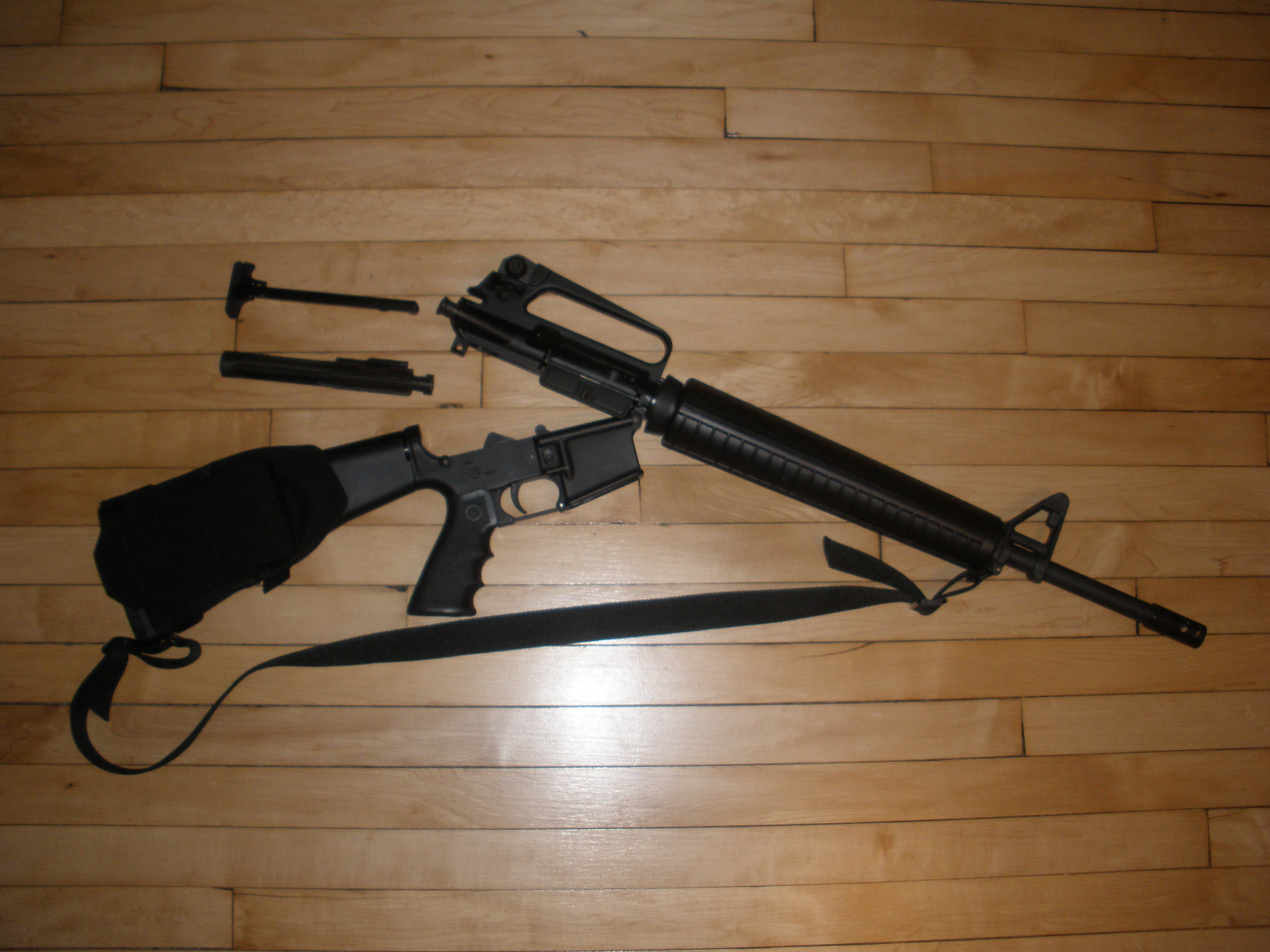 AR-15 with bolt carrier and charging handle field stripped.